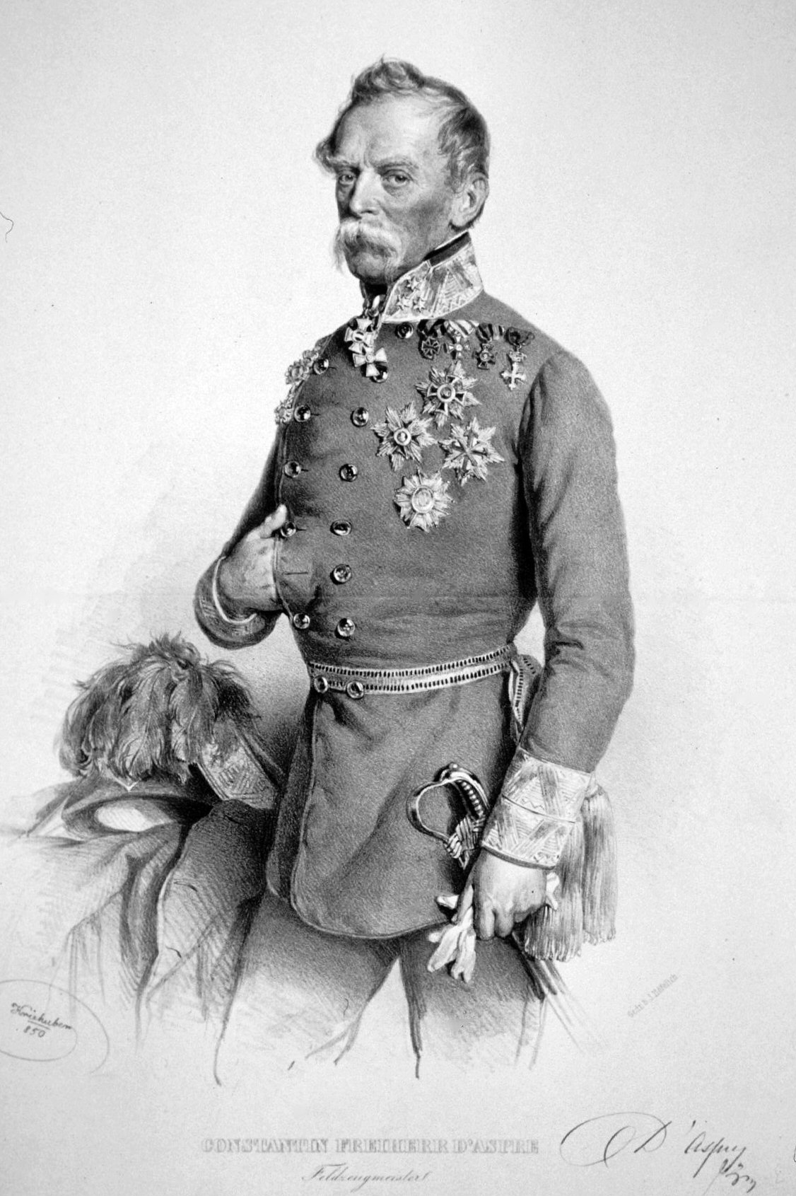 Konstantin d'Aspre (1789-1850), k. k. Feldzeugmeister.